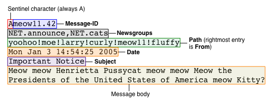 This illustrates the A News message format. Example of an early Usenet article. The legends in bold type are the equivalent header names in a modern Usenet article.